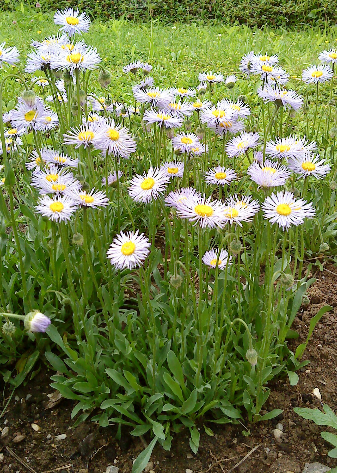 Large-flower Fleabane (Erigeron grandiflorus)